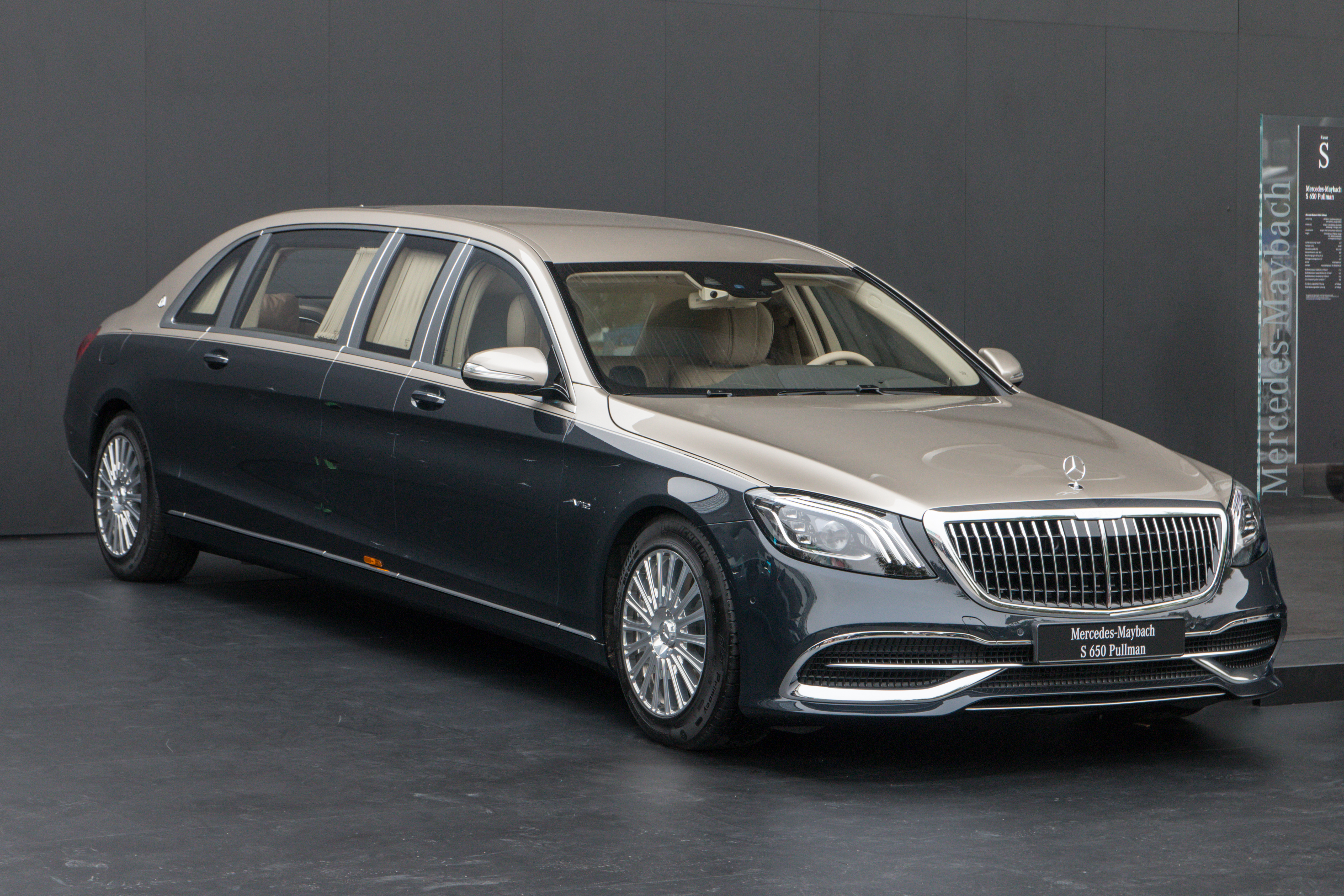 Mercedes-Benz VV 222 S650 Pullman